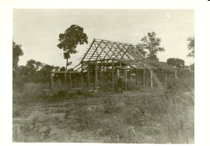 Citation: H.S. Bender Photographs. HM4-083 Box 1 Folder 3 Photo 138. Mennonite Church USA Archives - Goshen. Goshen, Indiana.